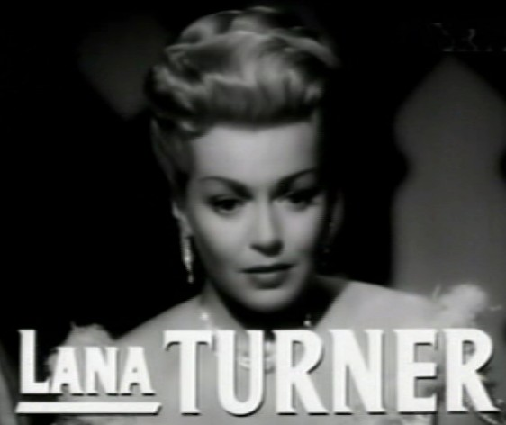 Cropped screenshot of Lana Turner from the trailer for the film The Bad and the Beautiful.